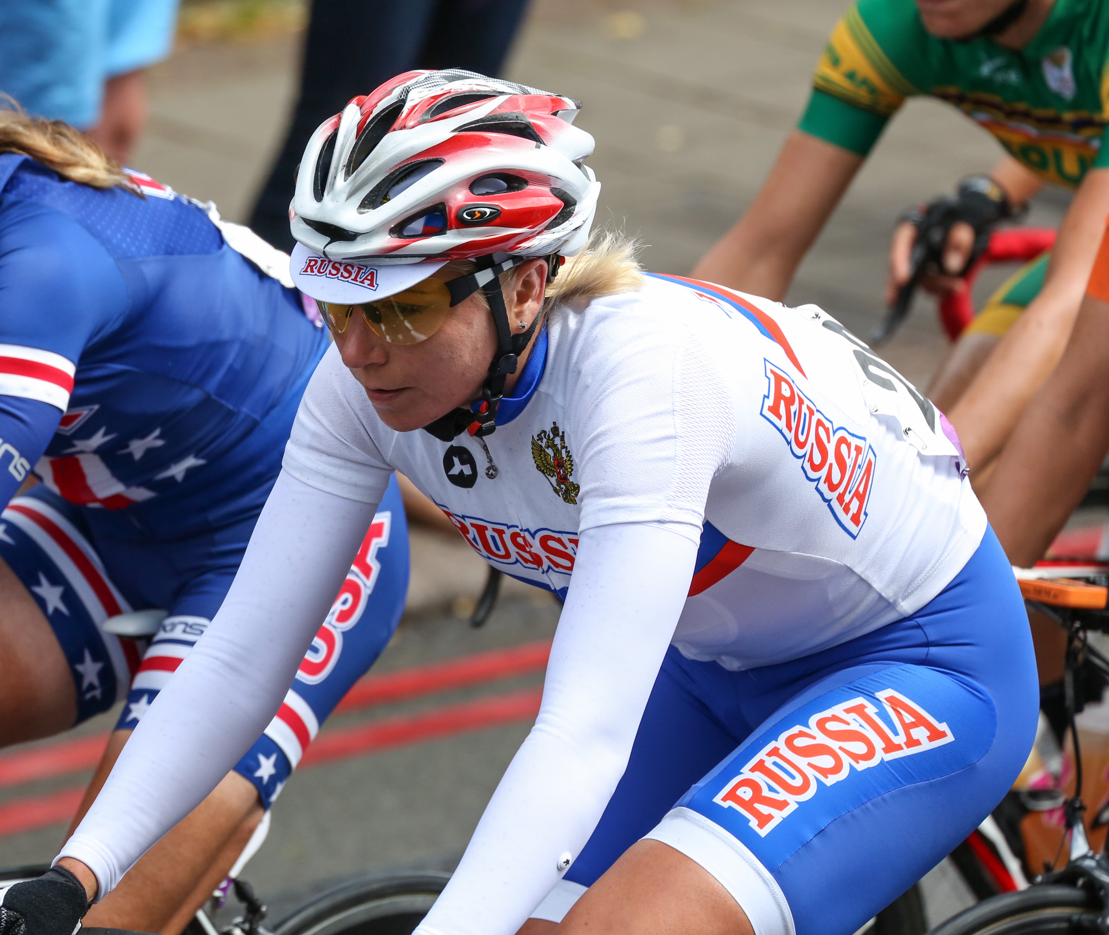 Olga Zabelinskaya cycling along Upper Richmond Rd in Southwest London in the 2012 Olympic Road Race.